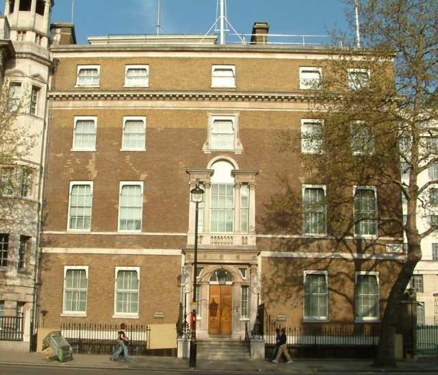 Welsh Office - Whitehall - London - England- 24/04/04